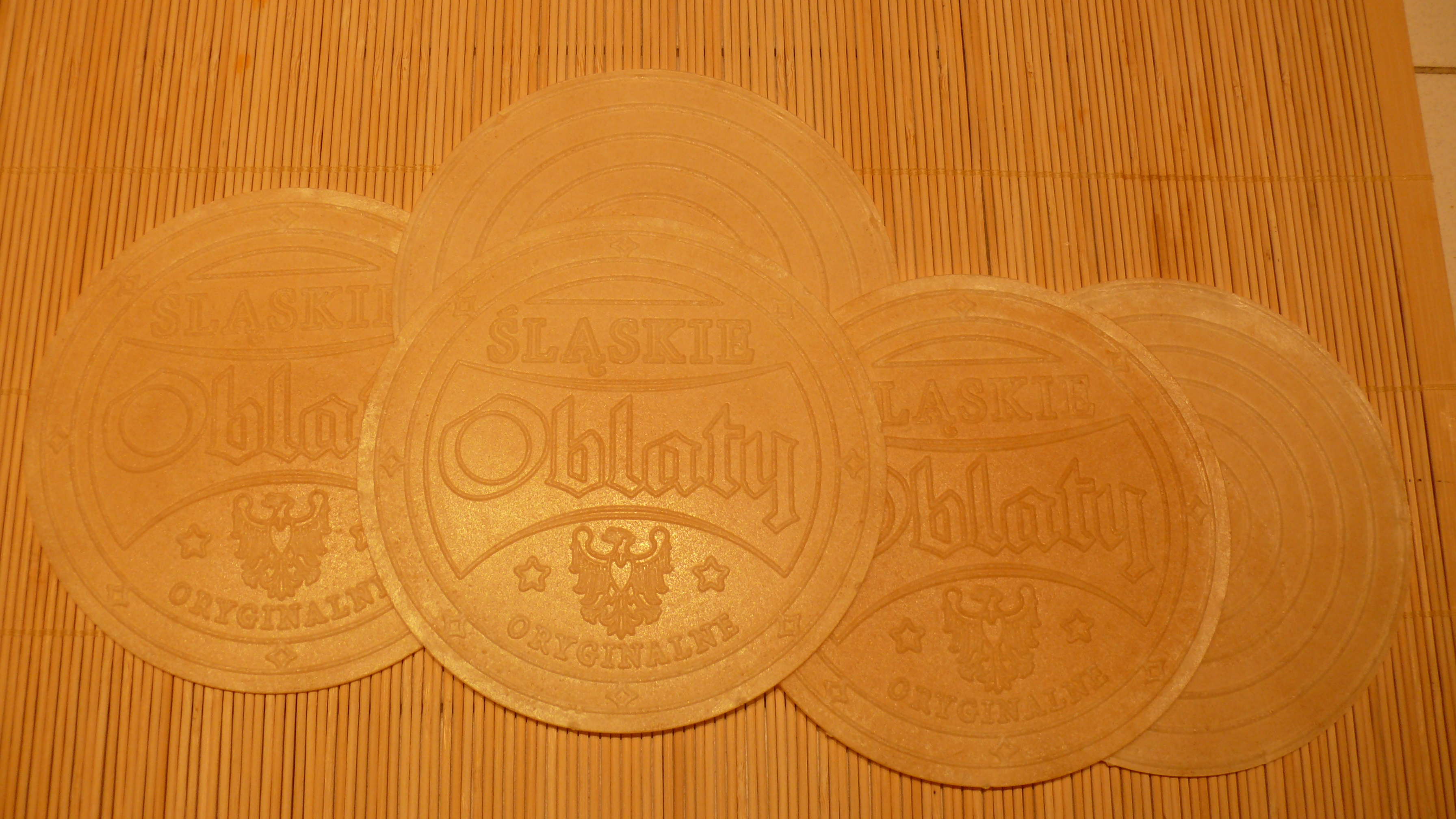 Upper Silesian wafers Oblaty